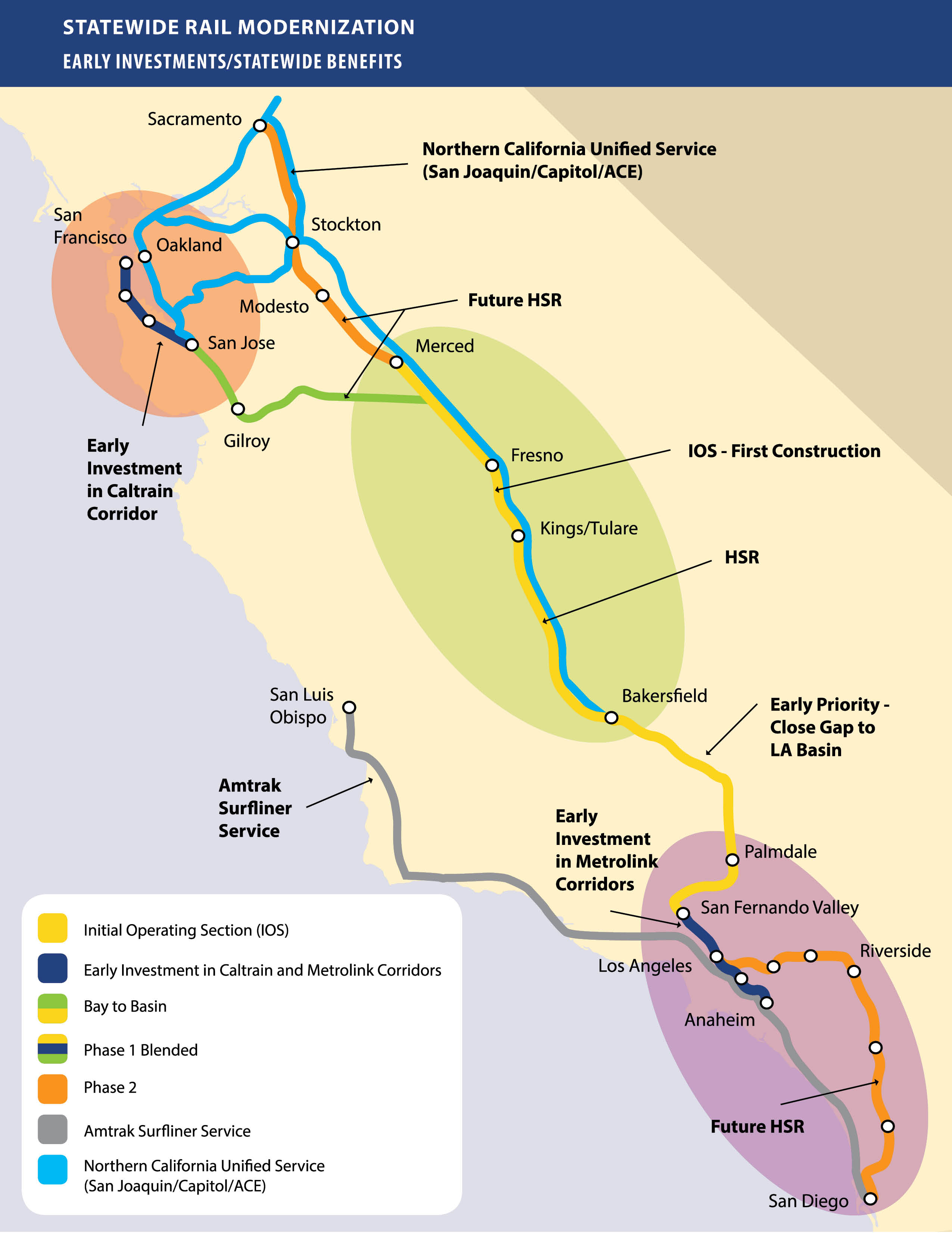 A map of the various segments of the California high-speed rail system